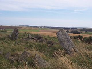 Sheldon Stone Circle This circle sits on the crest of a hill with a majestic 360 degree view.